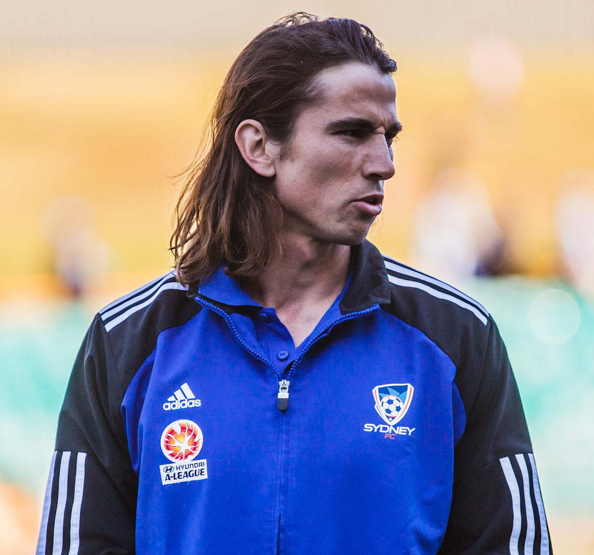 Adam Griffiths at a pre-season match between Sydney FC and Newcastle Jets.